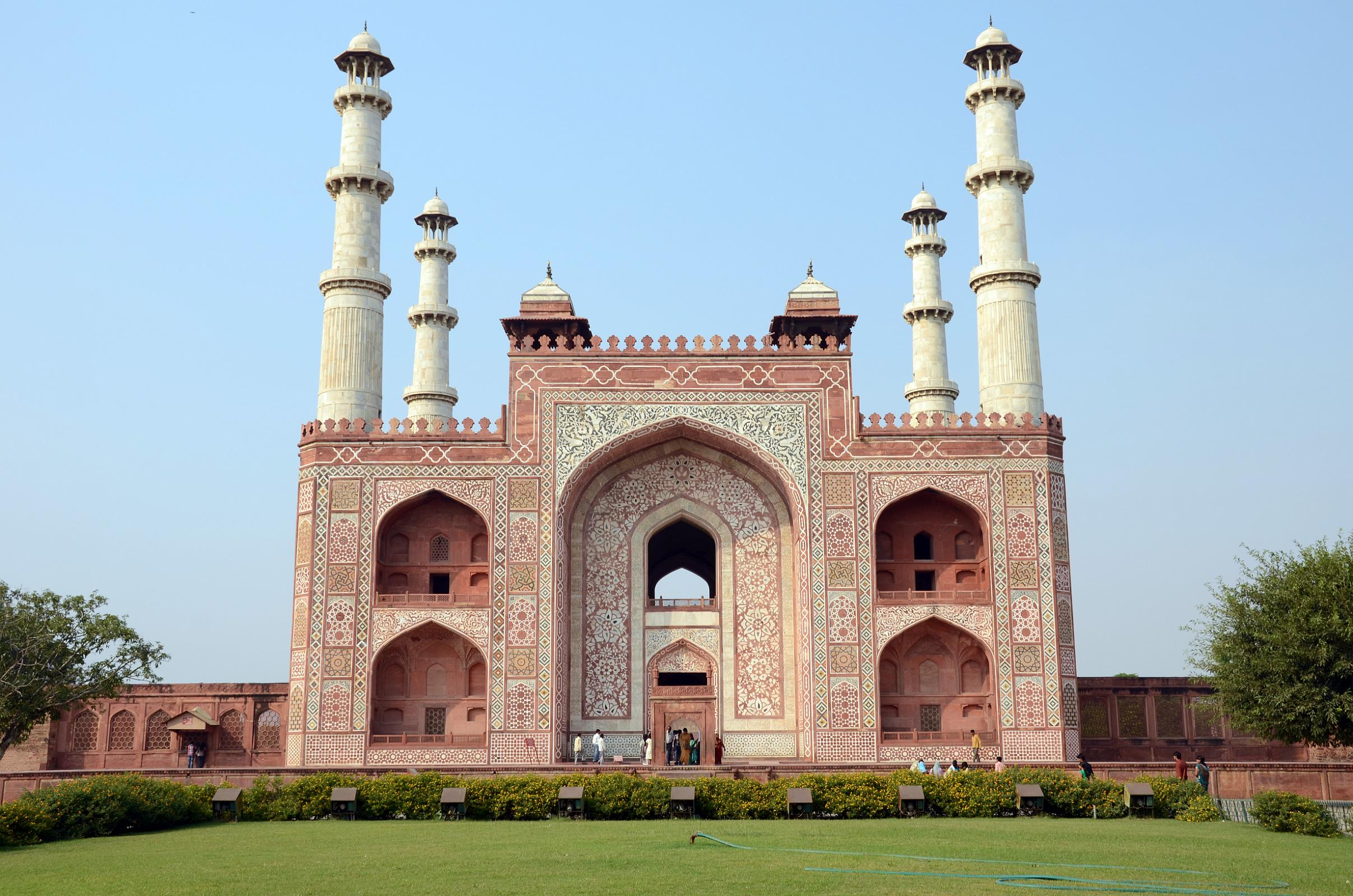 The tomb of akbar was built by his son prince Salim also called Jahangir. Akbar planned the tomb and selected a suitable site for it. After his death, Akbar's son Jahangir completed the construction in 1605–1613. Akbar was one of the greatest emperors in the history of India. However, during the reign of His great-grandson, Aurangzeb, the rebellious Jats under the leadership of Raja Ram Jat, ransacked the intricate tomb, plundered and looted all the beautiful gold, jewels, silver and carpets, whilst destroying other things. He even, in order to avenge his father Gokula's death, plundered Akbar's tomb, looted it and dragged Akbar's bones and burned them in retaliation. He was later sentenced to death by Aurangzeb. The Tomb has suffered a lot, until extensive repair was carried out by the British under Lord Curzon. The neighbouring Taj Mahal was also looted, and two of Agra's gates were taken away.